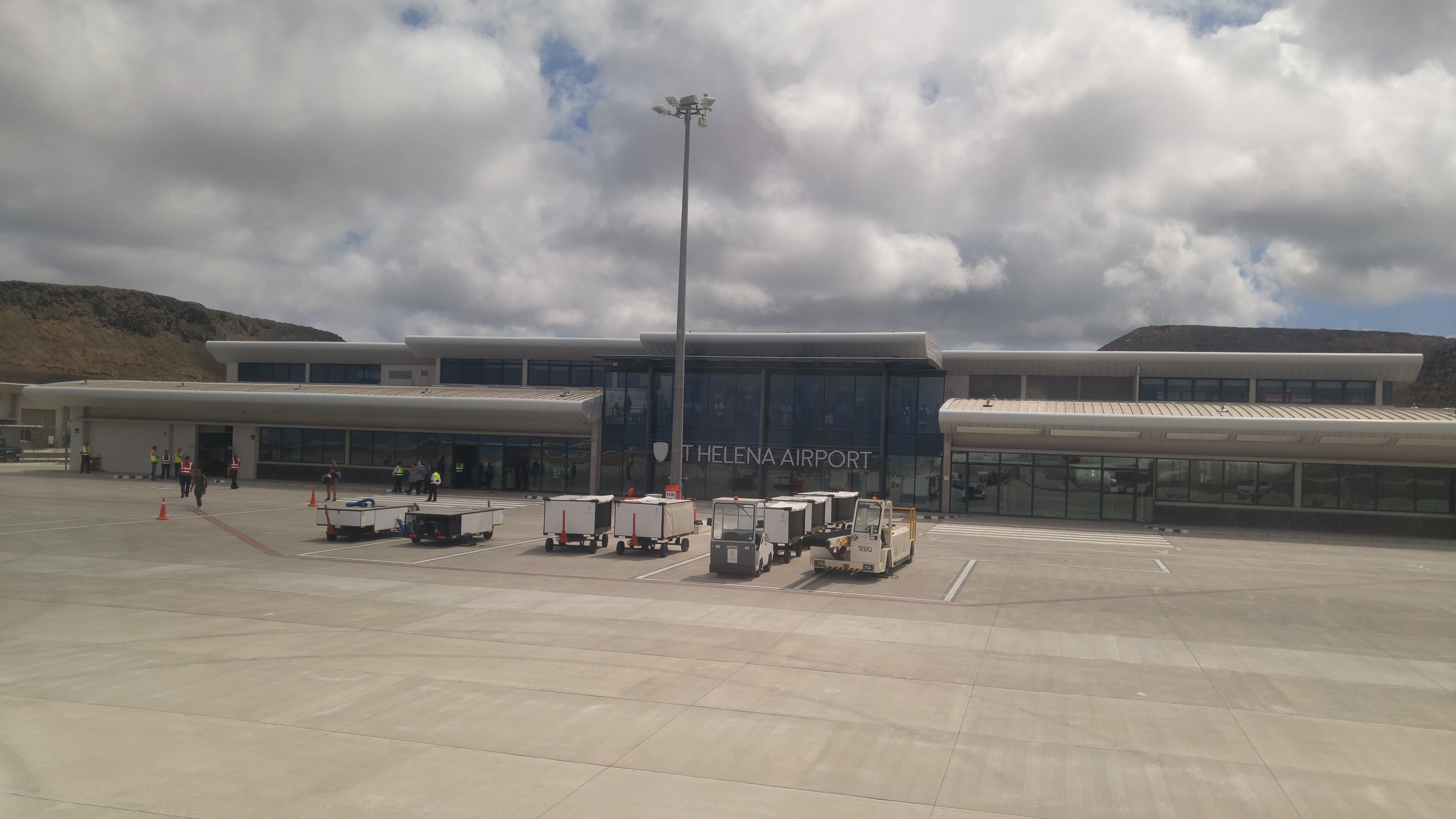 Saint Helena Terminal building viewed from an aircraft on the tarmac, March 2020